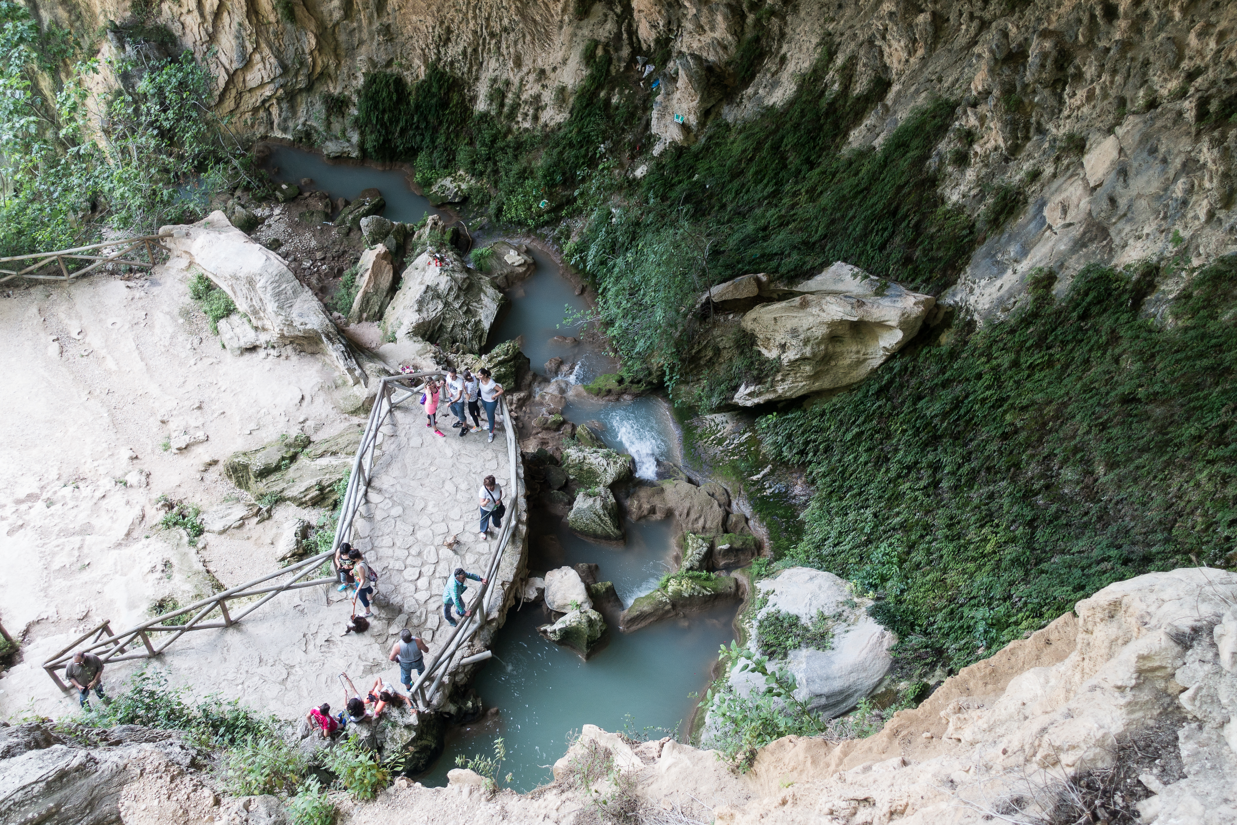 Cueva del Agua in Tiscar. Sierras de Cazorla, Segura y las Villas Natural Park. This is a photography of a Site of Community Importance in Spain with the ID: ES0000035. Natura2000 entry, EEA entry